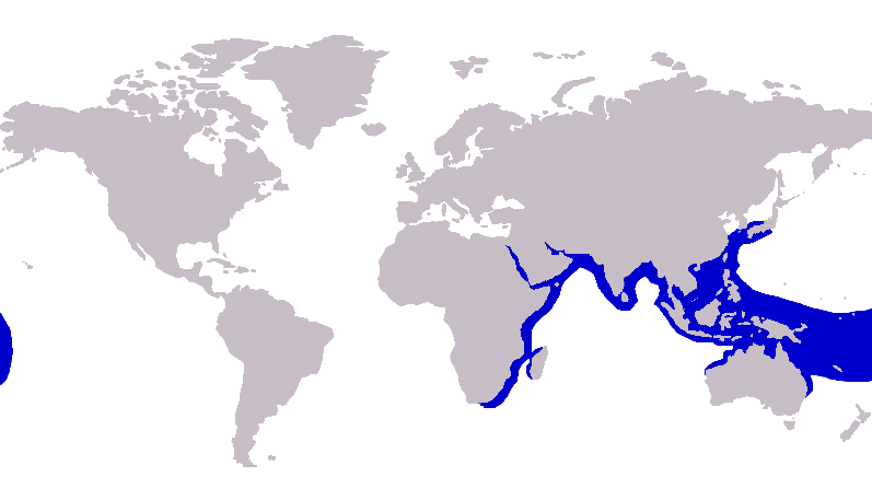 Distribution of yellowspotted trevally, Carangoides fulvoguttatus using map based on GDFL image